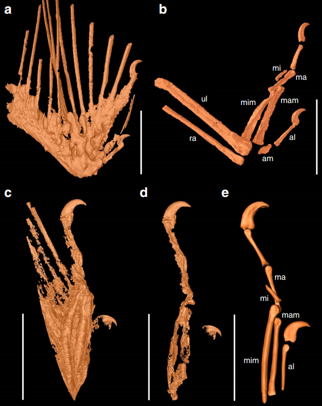 SR X-ray lCT reconstructions of osteology in DIP-V-15100 and DIP-V-15101. (a) Mummified DIP-V-15100, showing rachises, skin, muscle and claws. (b) Skeletal morphology of DIP-V-15100, using different density threshold. (c) Mummified DIP-V-15101, showing rachises, skin, muscle and claws. (d) Skeletal morphology of DIP-V-15101. (e) Reconstruction of osteology based on the CT data. al, alular digit; am, alular metacarpal; ma, major digit; mam, major metacarpal; mi, minor digit; mim, minor metacarpal; ra, radius; ul, ulna. Scale bars, 5 mm